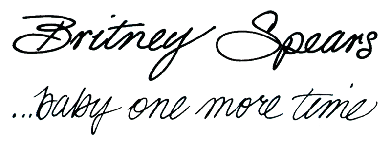 Baby One More Time Single logo